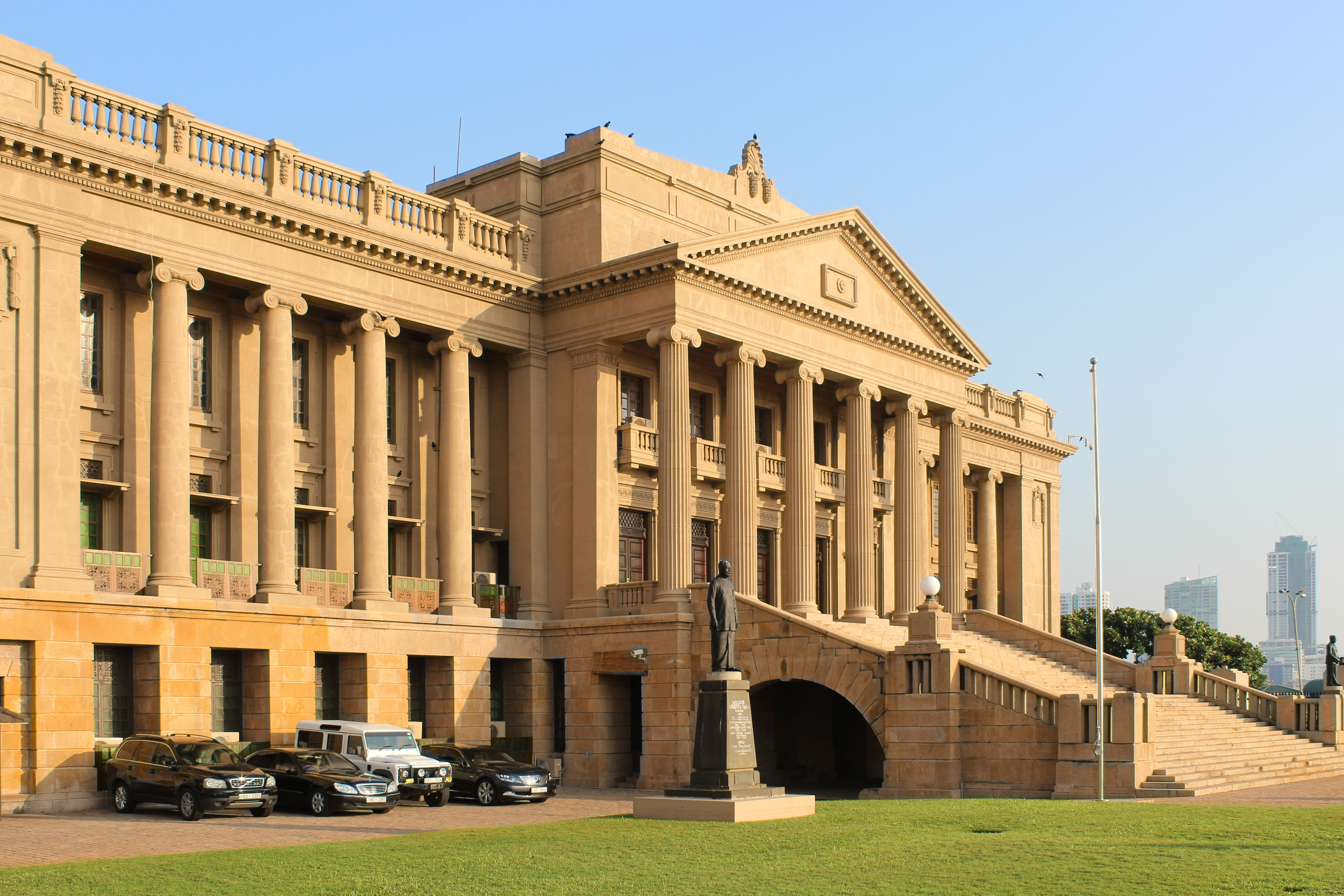 Old Parliament Building, Colombo. Completed 1930